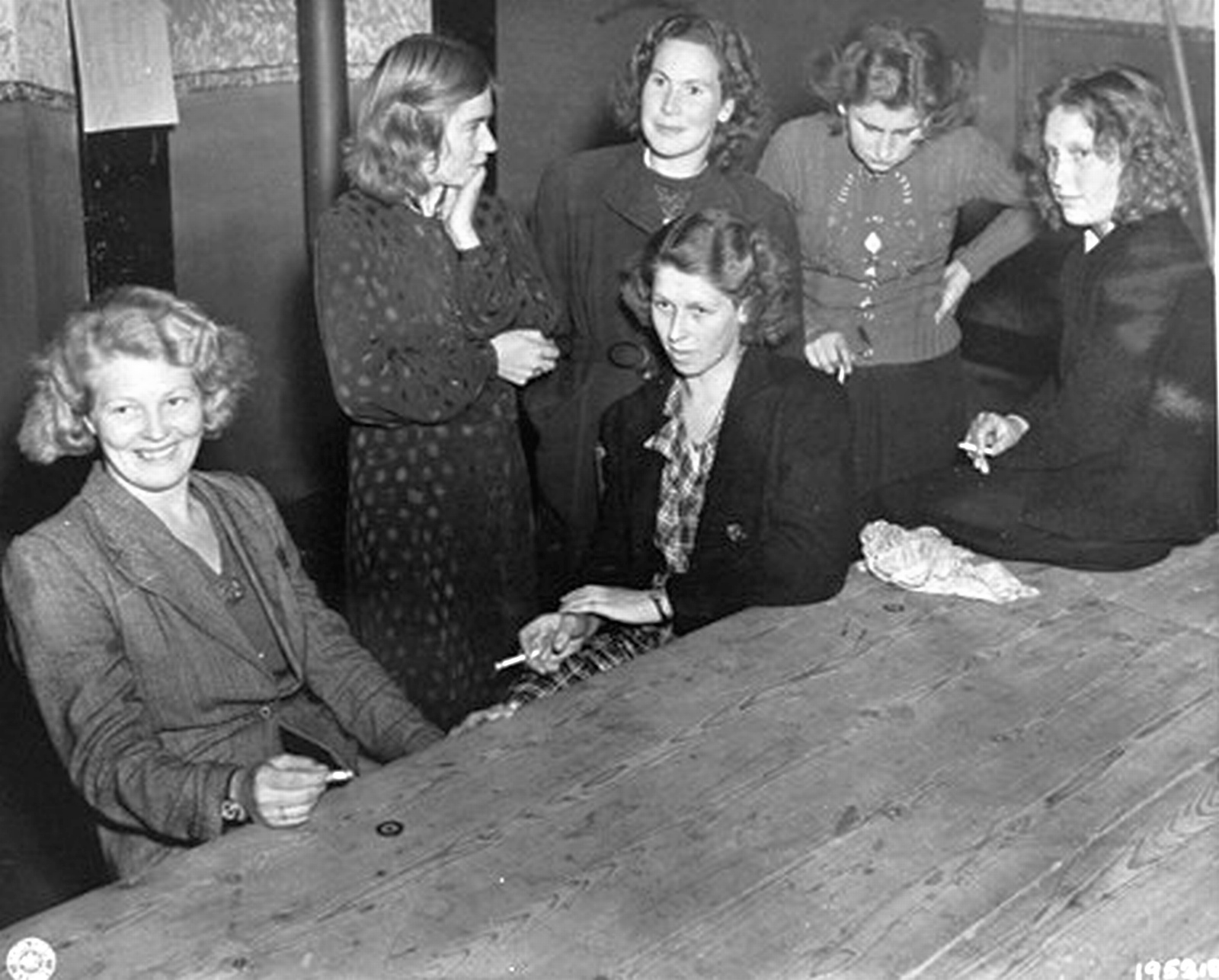 Dutch women who had sexual relations with German soldiers, await their fate after being arrested by the Dutch resistance. Their heads will be shaved and they will be marched through the streets of Grave.